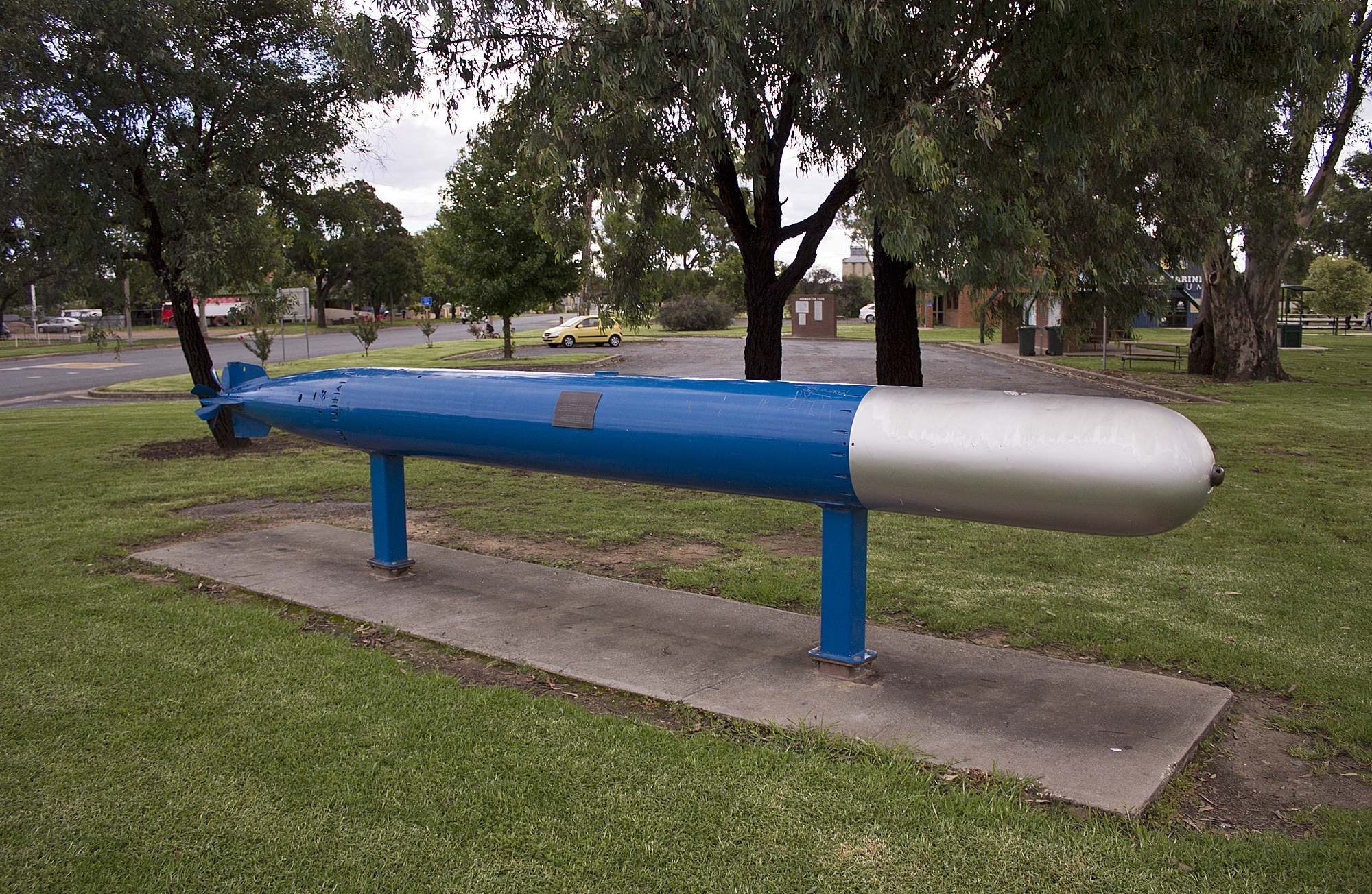 Mark 8 torpedo, commemorating Lieutenant-Commander Henry H. G. Stoker and crew of HMAS AE2, in Germanton Park